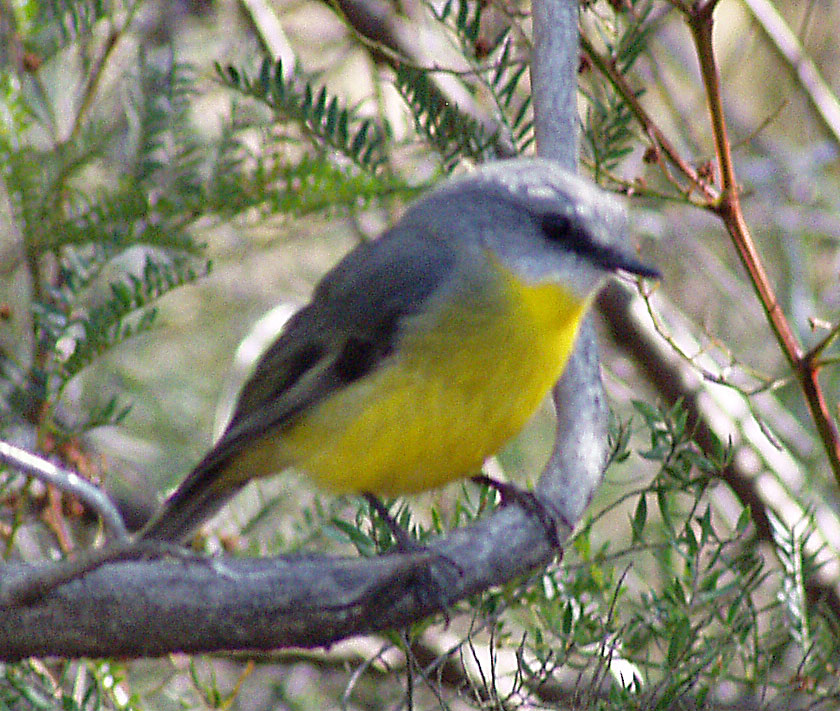 Description: Eastern Yellow Robin (Eopsaltria australis) Location: Australian National Botanic Gardens, Canberra, Australian Capital Territory, Australia Date: 2005-09-21 Source: picture taken by Danielle Langlois Licence: Released under GFDL and Creative Commons licenses by the photographer